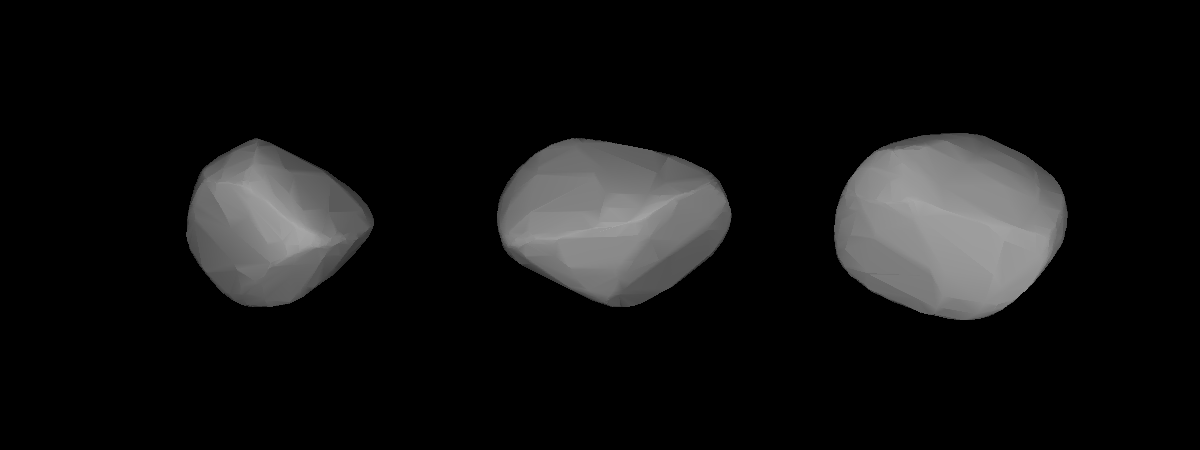 A three-dimensional model of 310 Margarita that was computed using light curve inversion techniques.